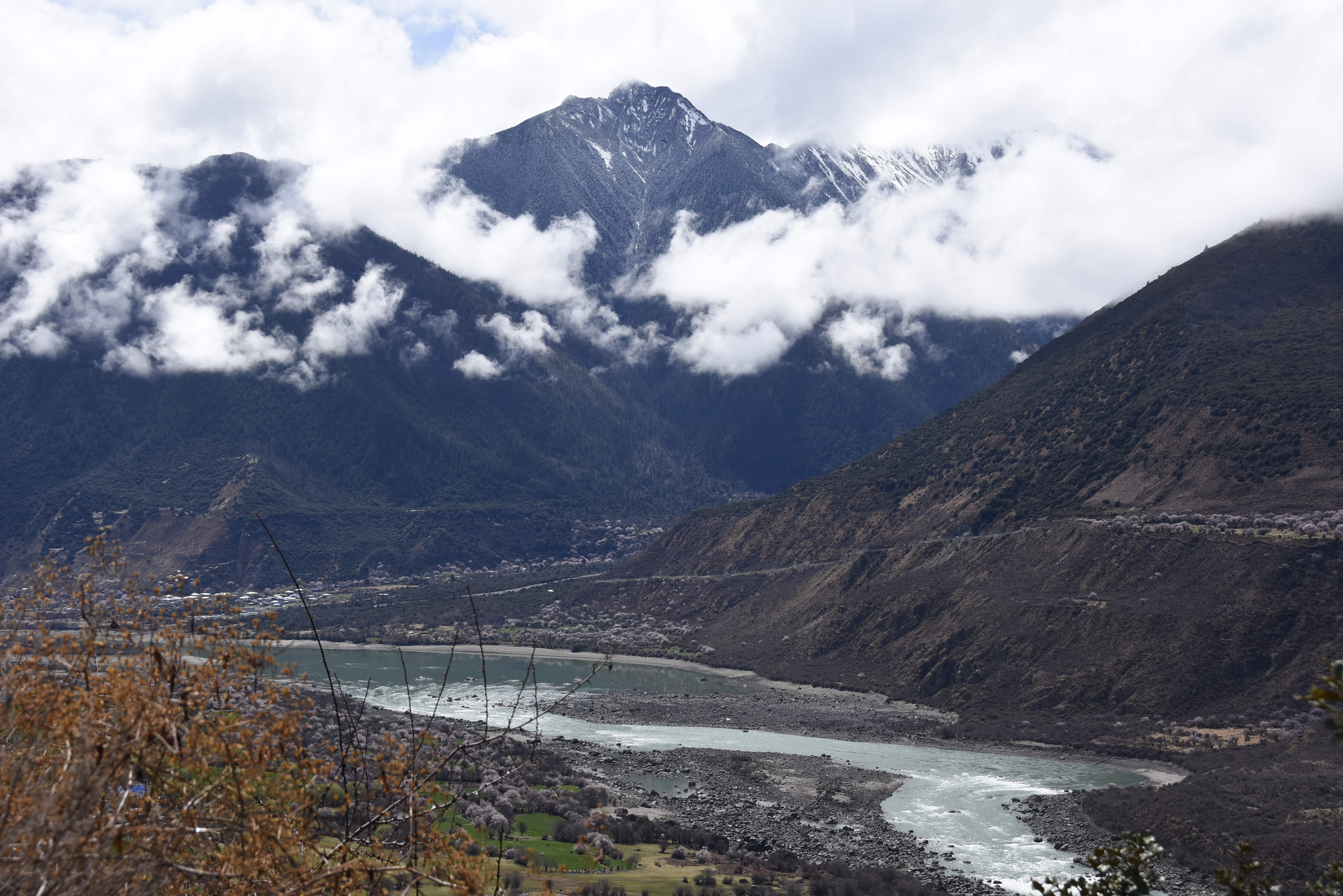 Q30026988：The Yarlung Zangbo River bypass Namjagbarwa turning south, forming the world's longest and deepest Grand Canyon, created in the south-eastern Tibetan Plateau exotic forest ecological landscape. The ancient peach forest on the shore is just in full bloom, although the plateau temperature is lower; it has brought people a breath of spring.